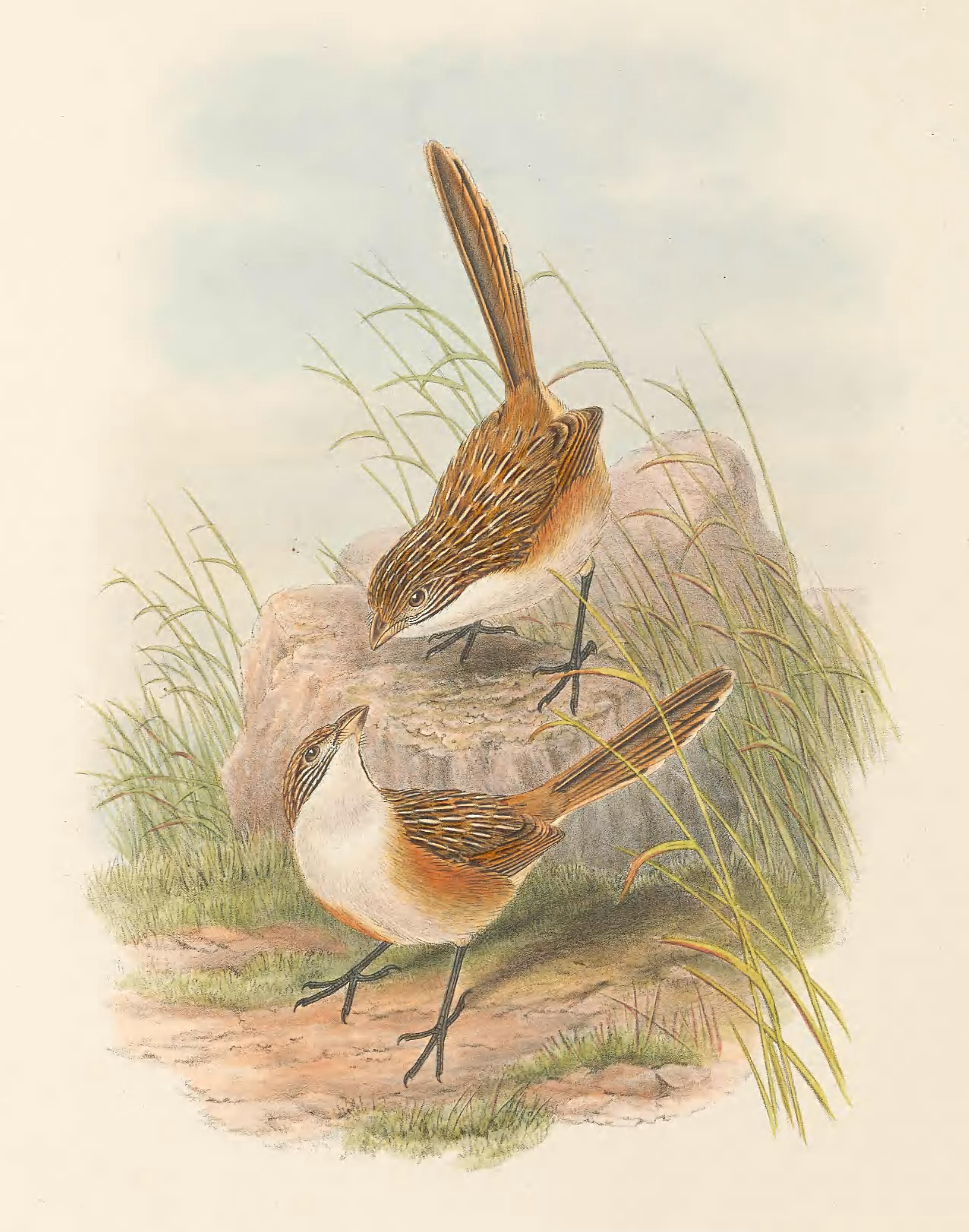 Amytis goyderi (=Amytornis goyderi) in The birds of New Guinea and the adjacent Papuan islands, including many new species recently discovered in Australia. v.3 (Plate 8).